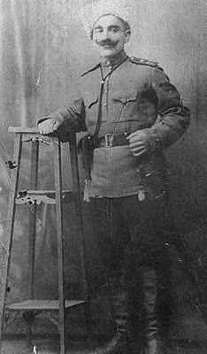 Caucasus Greek officer from Muzarat, Ardahan District: Major Christos Adamidis of the Imperial Russian Army of the Caucasus, Greek contingent. Born around 1860, while still a youth Christos Adamidis joined the Russian army and fought in the 1877-78 Russo-Turkish war, eventually becoming a commander in the Greek contingent of the Russian Army of the Caucasus